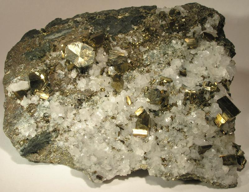 Cubanite Locality: Chibougamau, Nord-du-Québec, Québec, Canada (Locality at ) Size: cabinet, 11.2 x 11.2 x 3.5 cm Cubanite A truly remarkable specimen with rich coverage of twinned cubanites, including that wonderful, 1.2 cm cyclic twin sitting front and center, all on crystallized and contrasting calcite matrix! Large cubanite specimens are godawfully rare and the pieces from this mine set the standard. However, good specimens are usually just miniatures or thumbnails - to get crystals of such quality, and so richly, on matrix, is almost unheard of today. This is a superior specimen, worthy of a museum. 11.2 x 11.2 x 3.5 cm